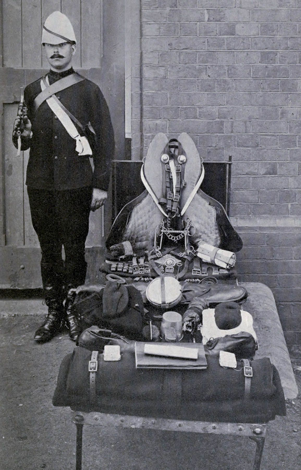 Uniform and kit of the Natal Mounted Police in the early 1880s